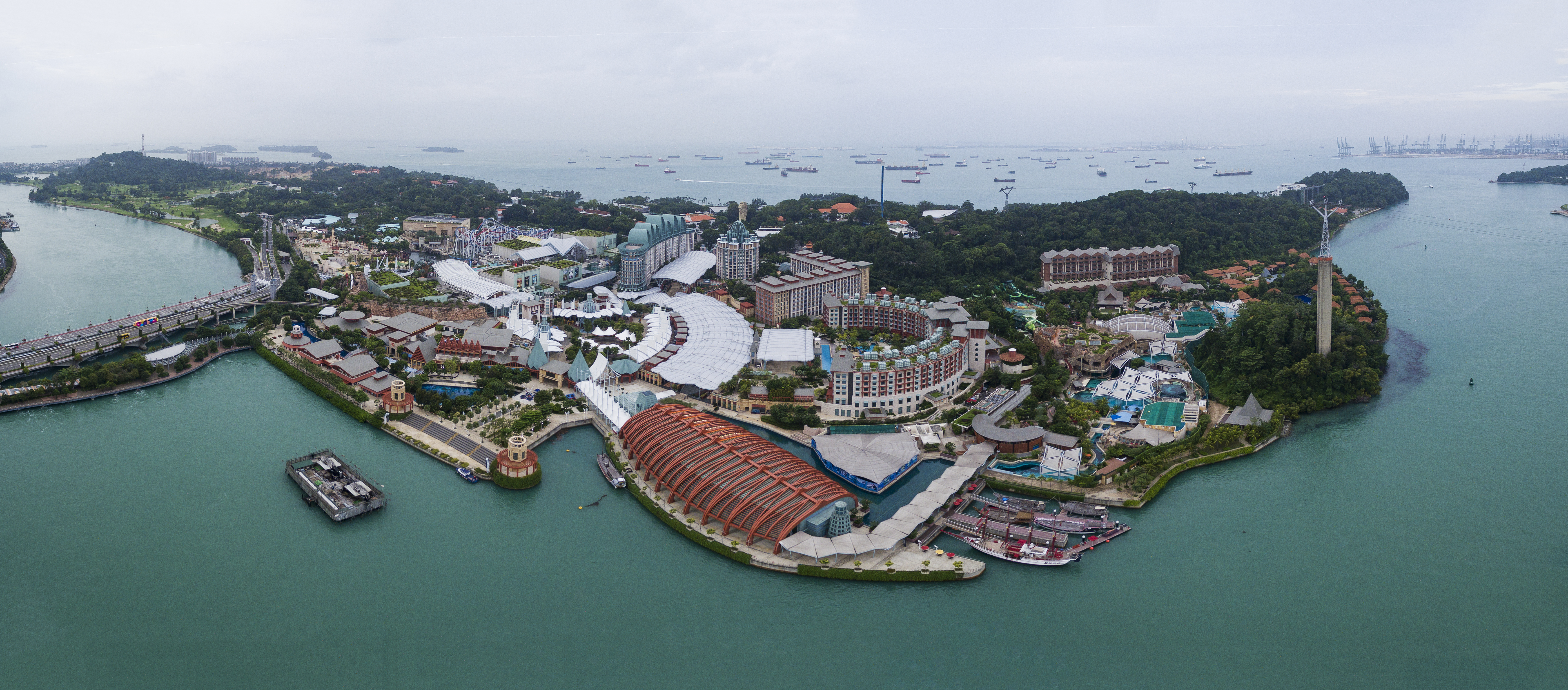 sentosa island aerial shot